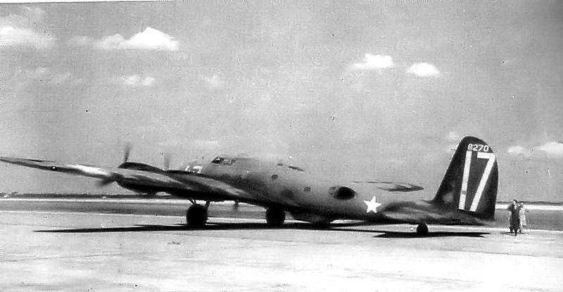 B-17B Flying Fortress 38-270 Hendricks Army Airfield, Florida, 1942